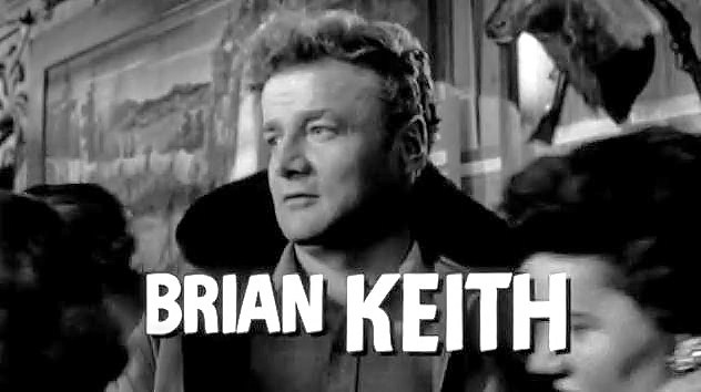 Brian Keith in a screenshot from the trailer for the film 5 Against the House 1957.